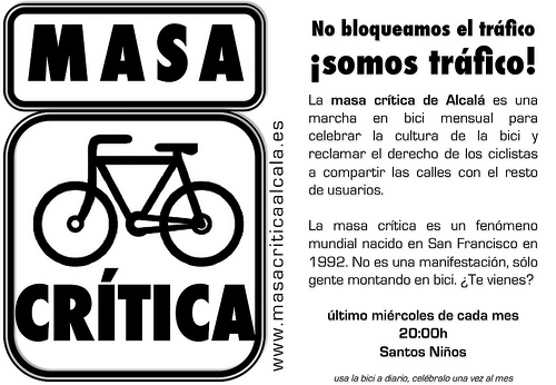 critical mass